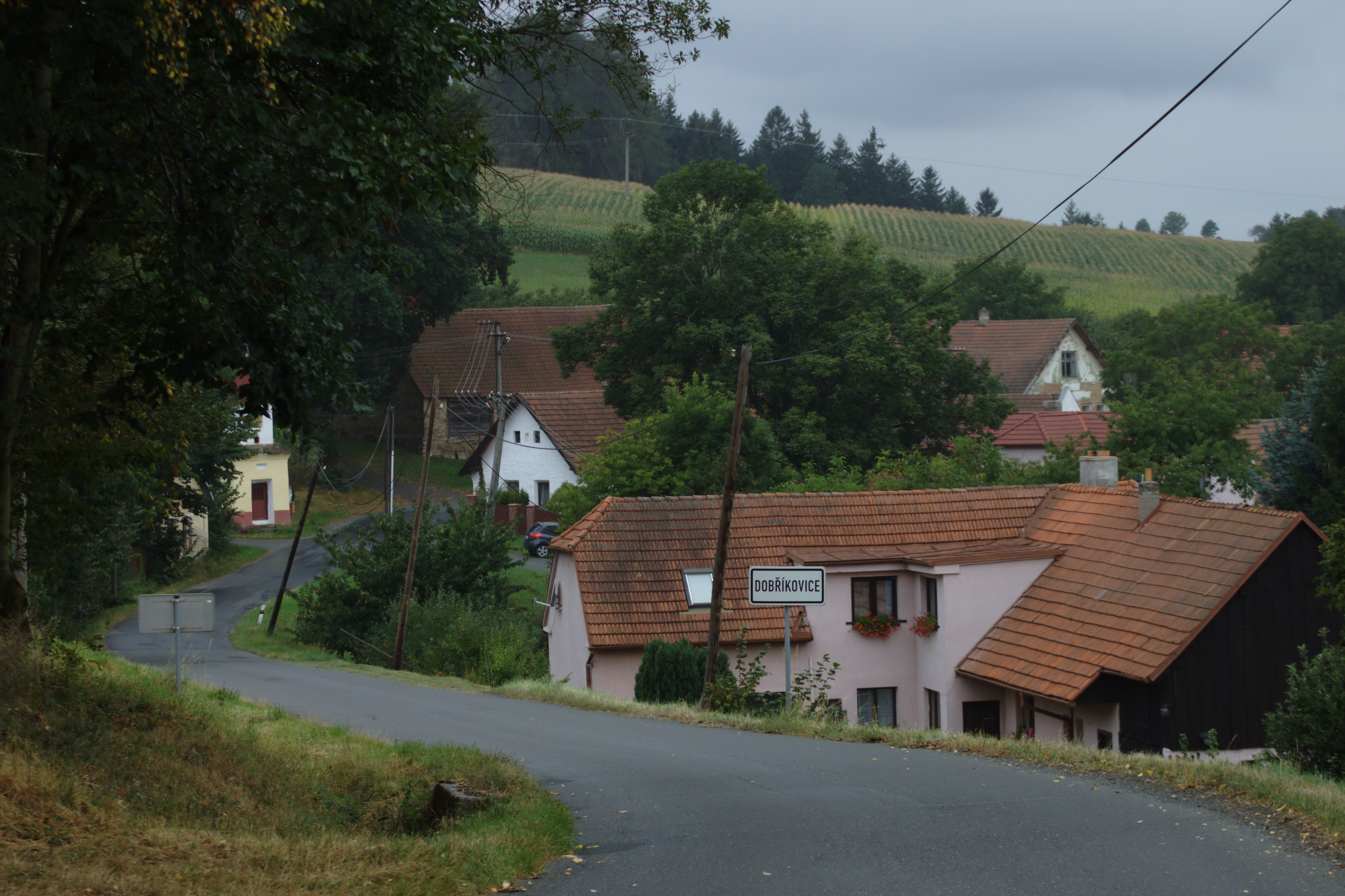 Main road in the village of Dobříkovice, Central Bohemia, CZ